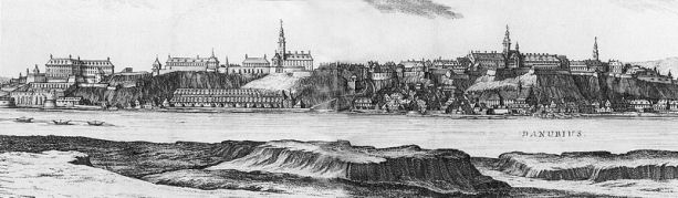 Etching of King Charles III's palace at Buda and town at the Danube.